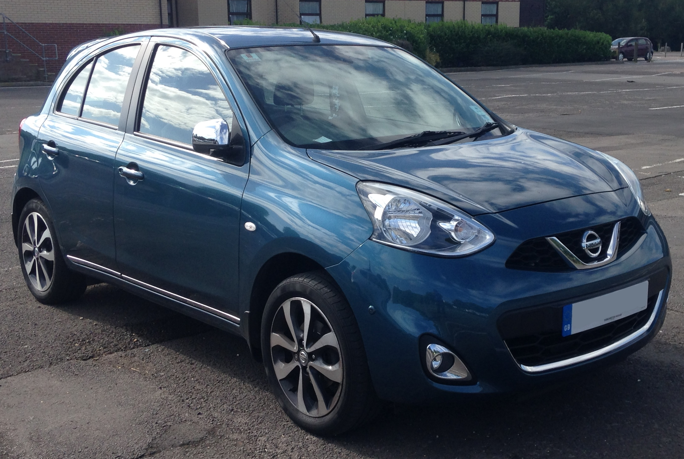 2013 Nissan Micra Tekna 1.2 Front Taken in Weymouth, Dorset